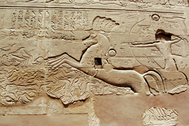 Relief of the northern tower of the 3rd pylon of Karnak, showing the wars of Seti I against the Shasu of Canaan.